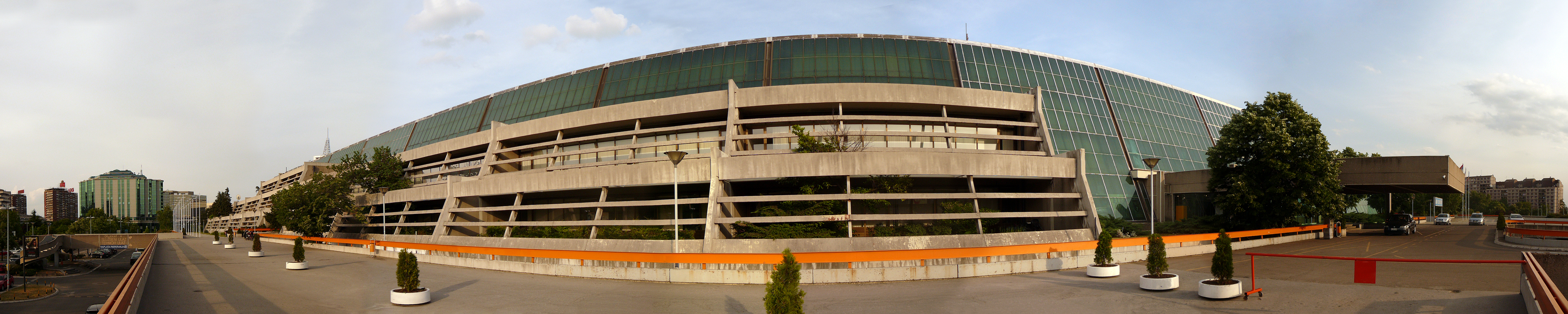 Sava Centar in cylindrical perspective.